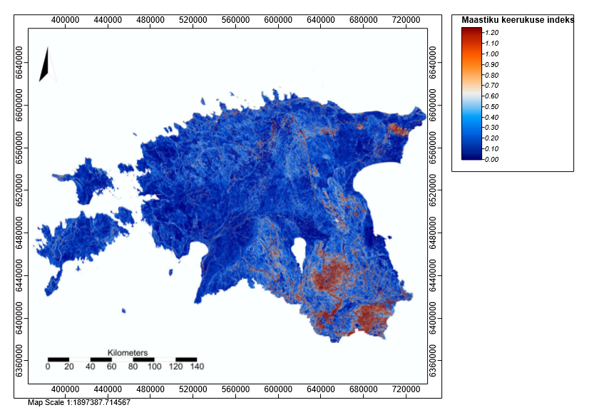 Riley (1999) maastiku keerukuse indeks Eesti 25-meetrise kõrgusmudeli andmetel